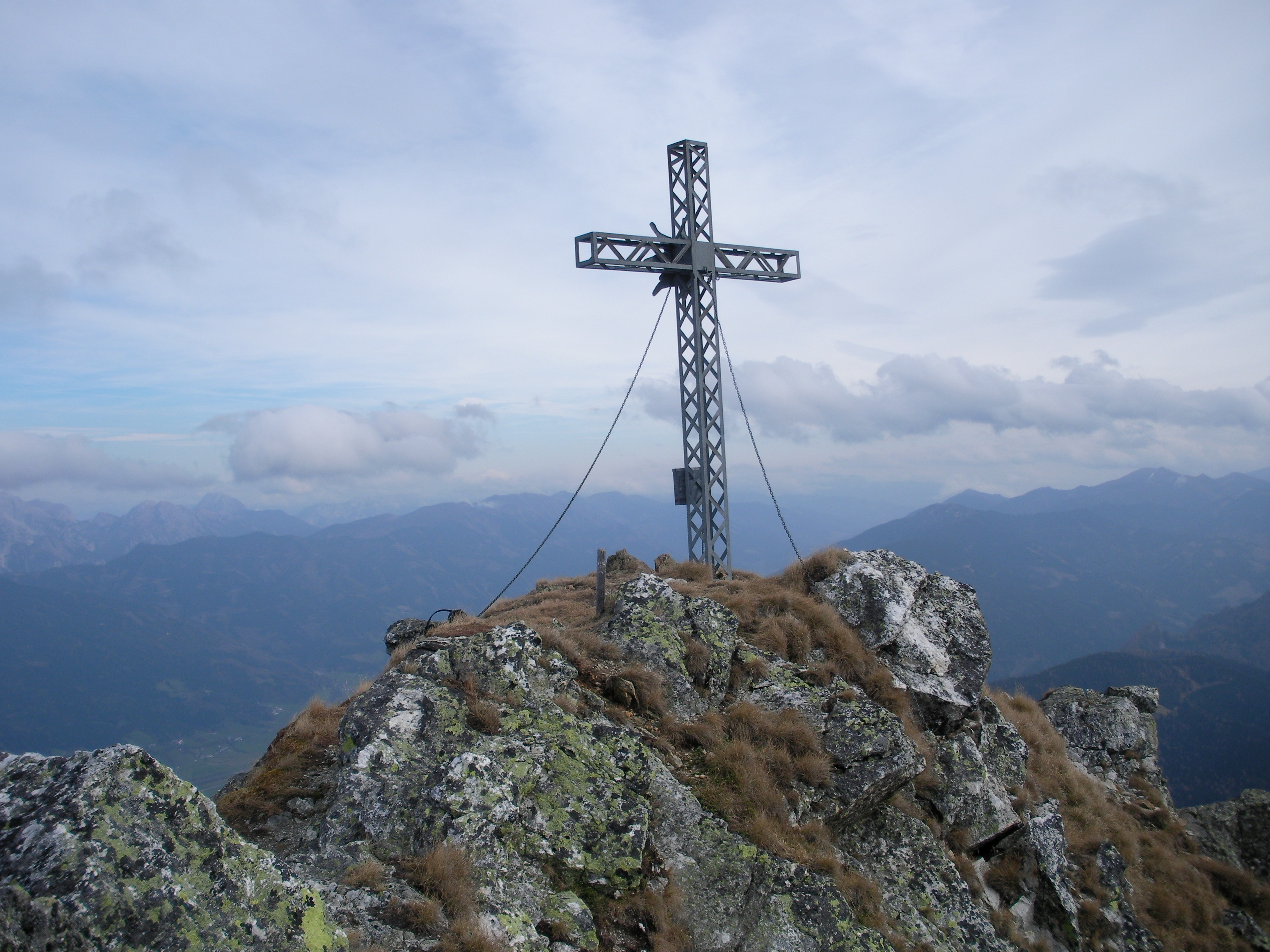 Almspitz Summit Cross